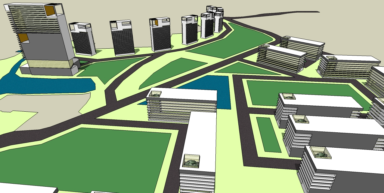 An artist's impression of the Technocity project, being developed in Trivandrum, India.